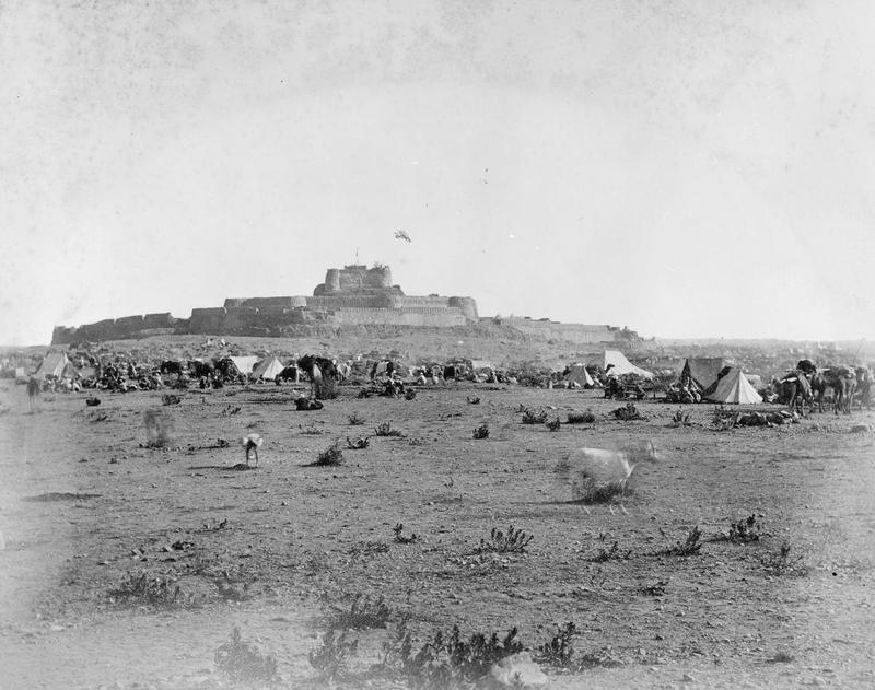 The Second Afghan War 1878-1880 The British Army camp at Fort Jamrud, Afghanistan.